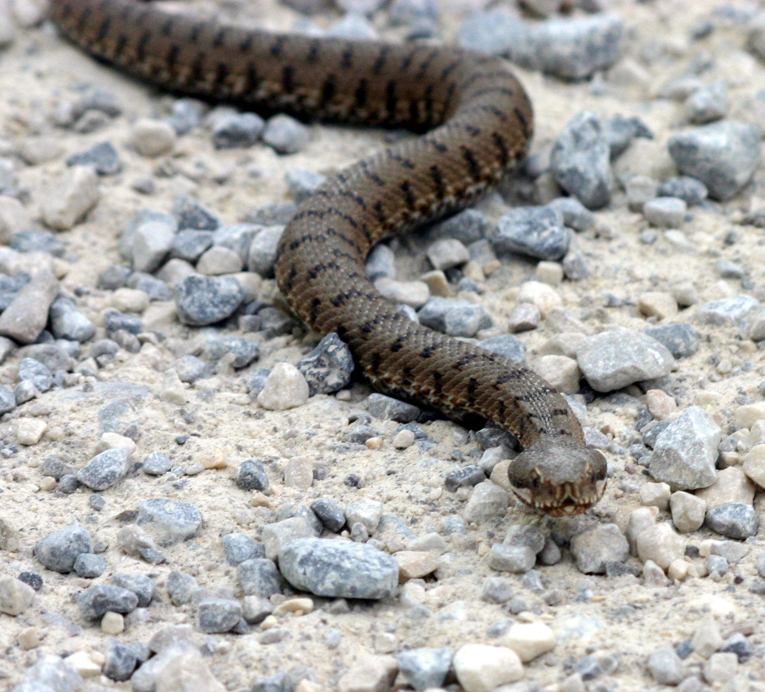 Toskana, Umgebung von Pienza, 15.05.2005. Considering the appearance of this specimen and the location at which the picture was taken (Pienza is 43°04′43″N, 11°40′44″E), this is likely an example of V. a. francisciredi.